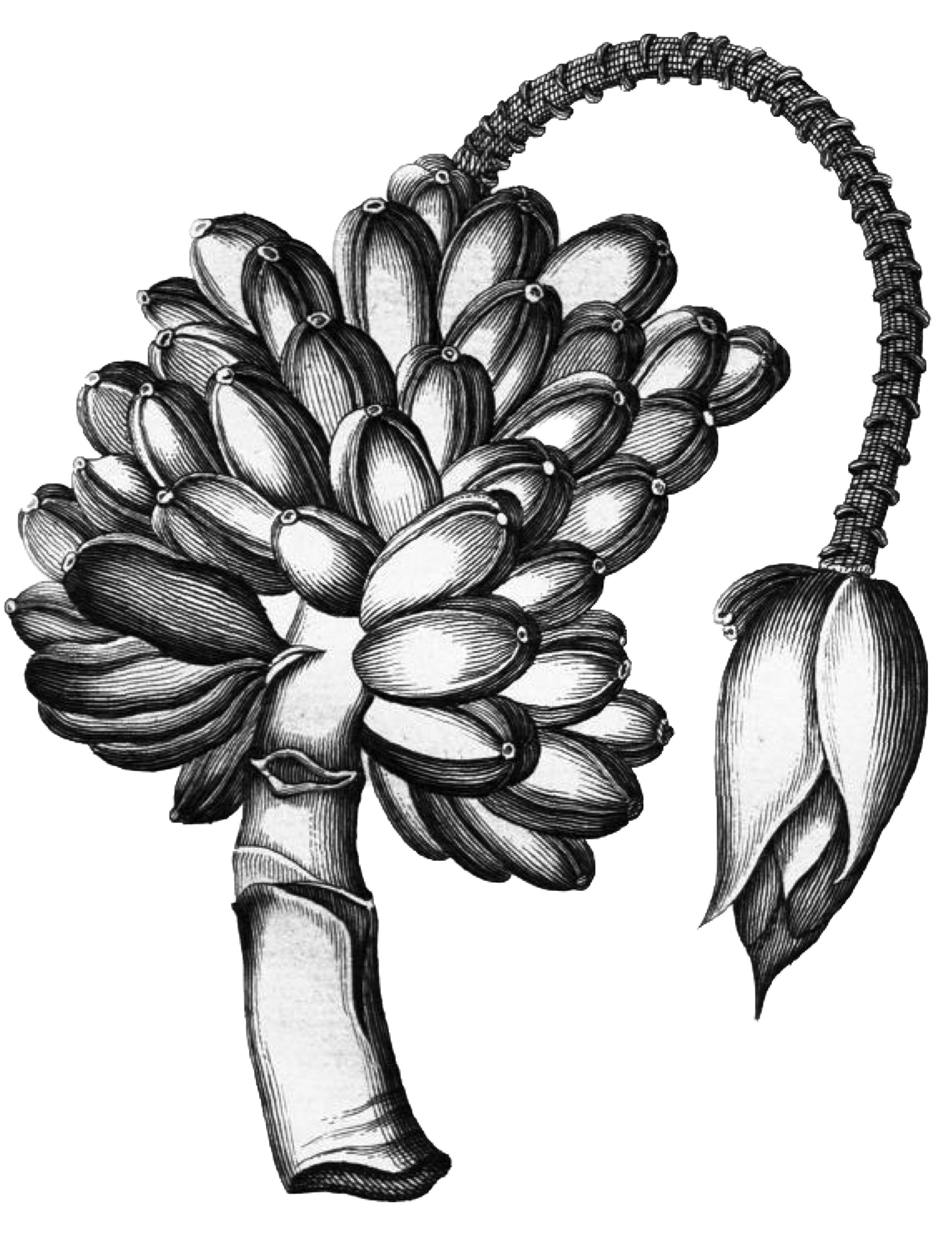 Part of plate 61 showing the plant Rumphius called "Musa Uranoscopos"